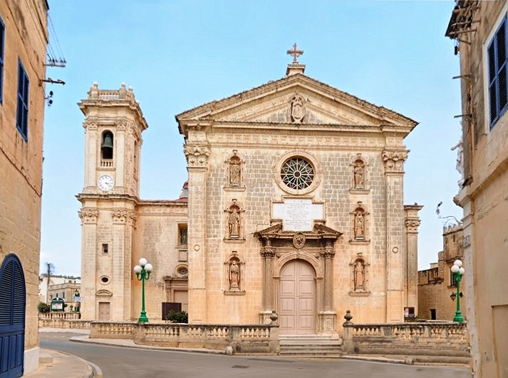 Malta